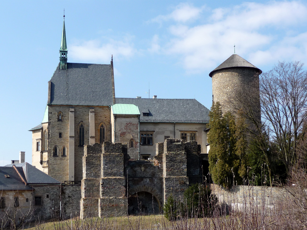 Sternberk Castle, Czech Republic